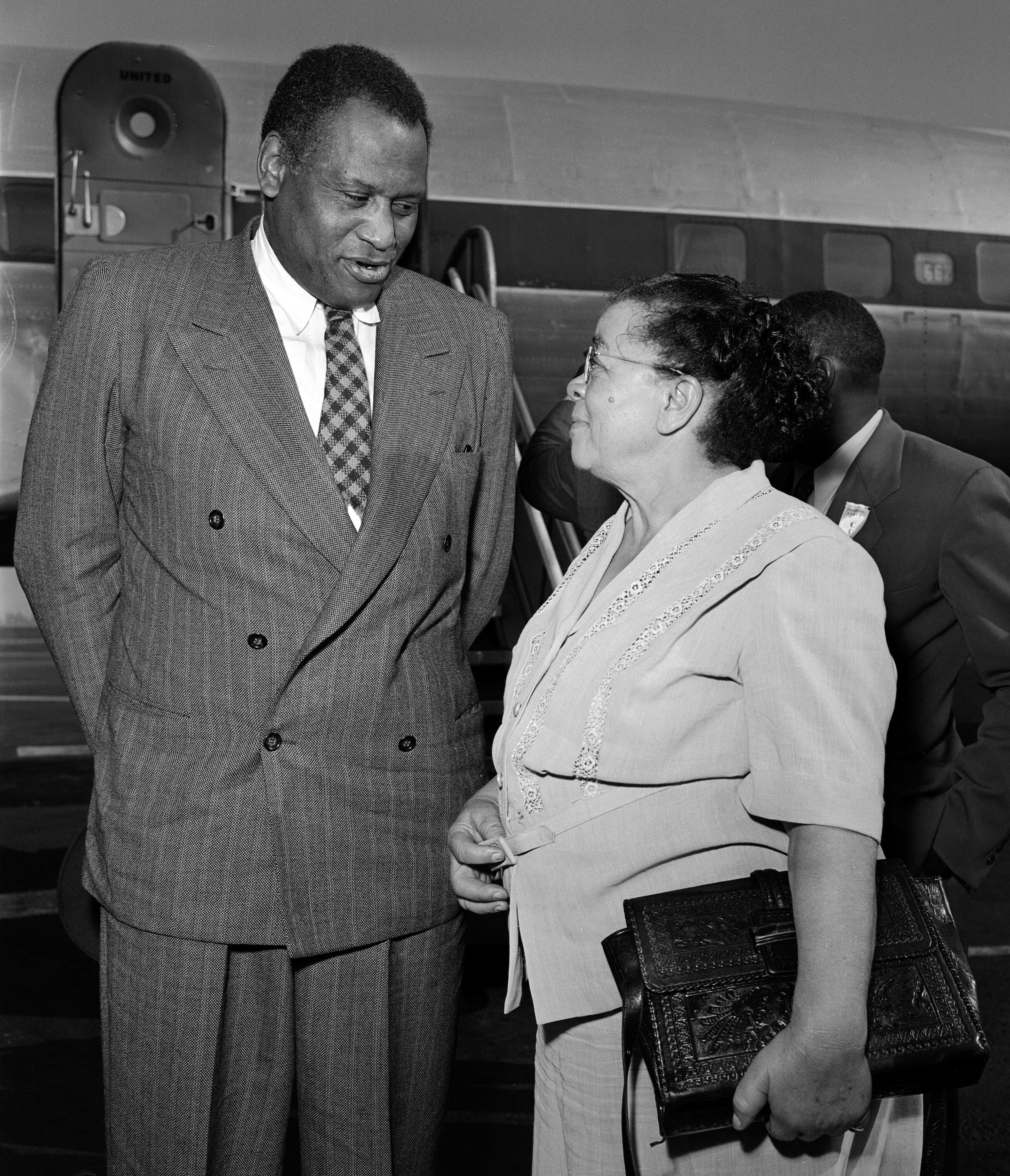 Actor, singer, and civil rights activist Paul Robeson speaks with fellow activist and California Eagle editor and publisher Charlotta Bass. Both Paul Robeson and Charlotta Bass were accused of disloyalty by the Committee of Un-American Activities and were the subjects to federal investigations.